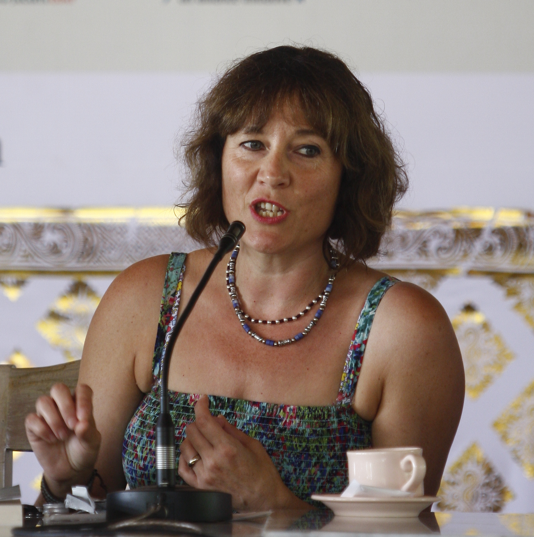 Ubud Writers & Readers Festival 2012. Image credit Stanny Angga.